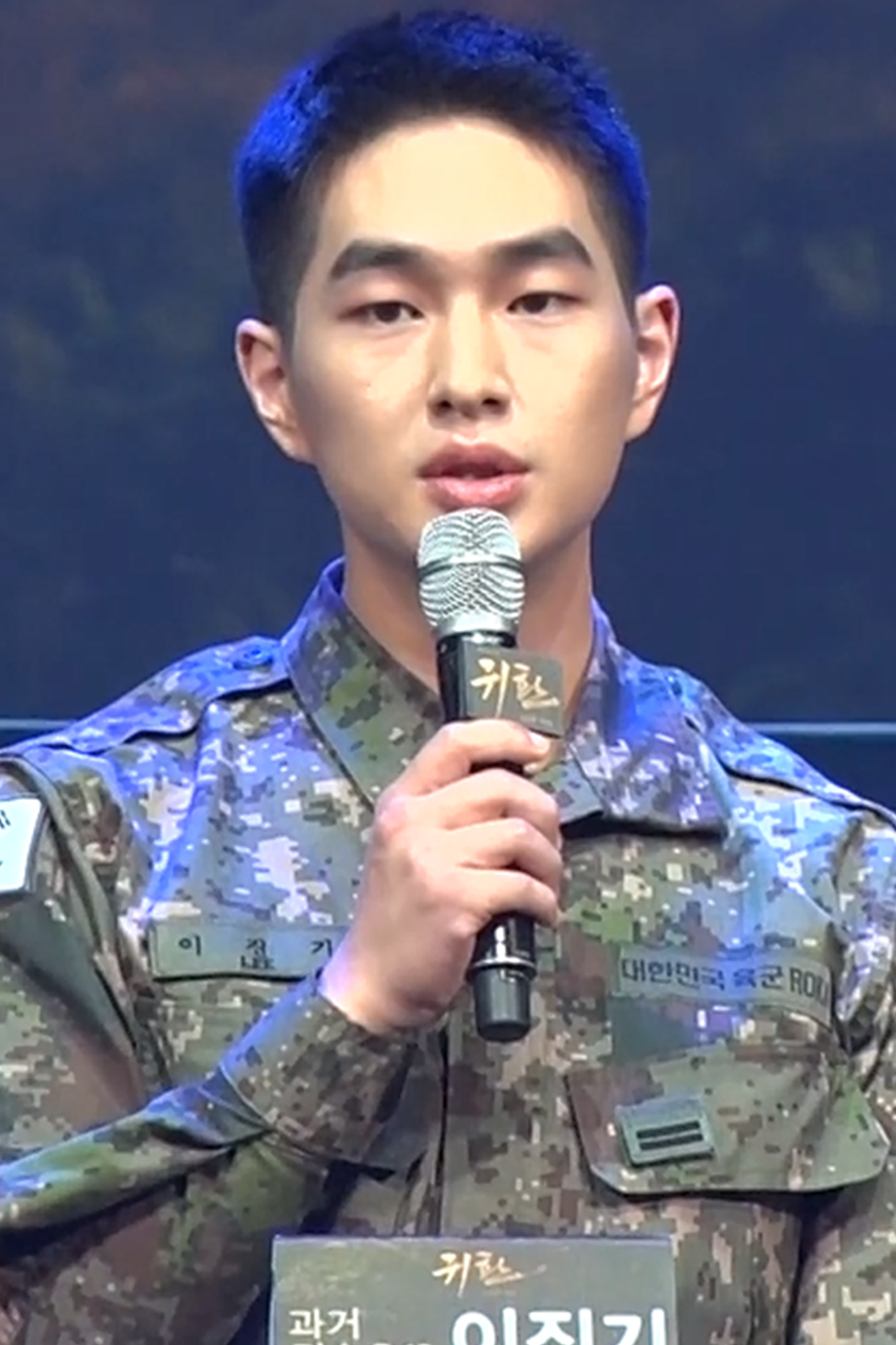 Lee Jin-ki during the performance of the musical Return: The Promise of the Day, held at the Blue Square Eye Market Hall in Yongsan-gu, Seoul, September 24, 2019.